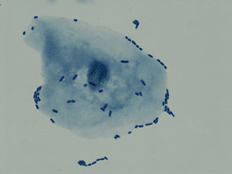 Uropathogenic Escherichia coli (UPEC) cells adhered to bladder epithelial cell (BEC). Cells stained with methylene blue and fuchsine.